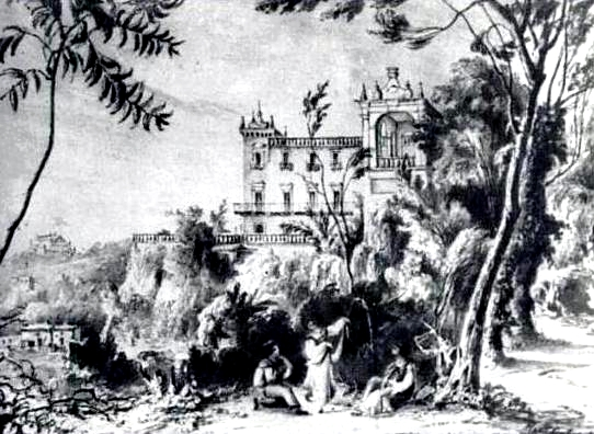 Villa Carafa - Vandeneynde